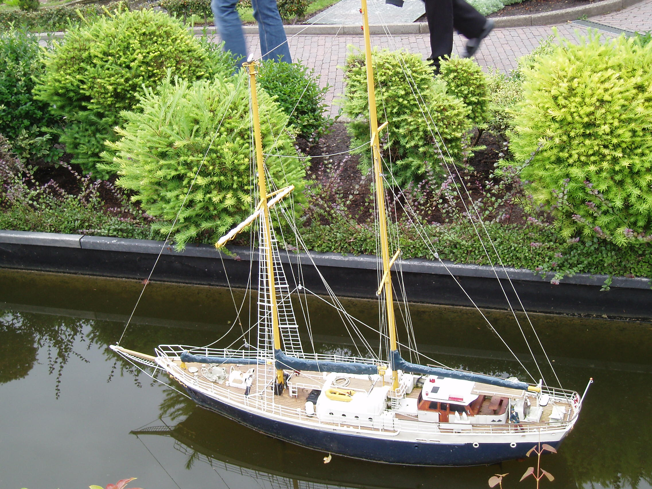 Madurodam in the Hague in the Netherlands; Sailing Ship / Zeilschip 'De Eendracht' (model of the schooner Eendracht (I), now named Johann Smidt)